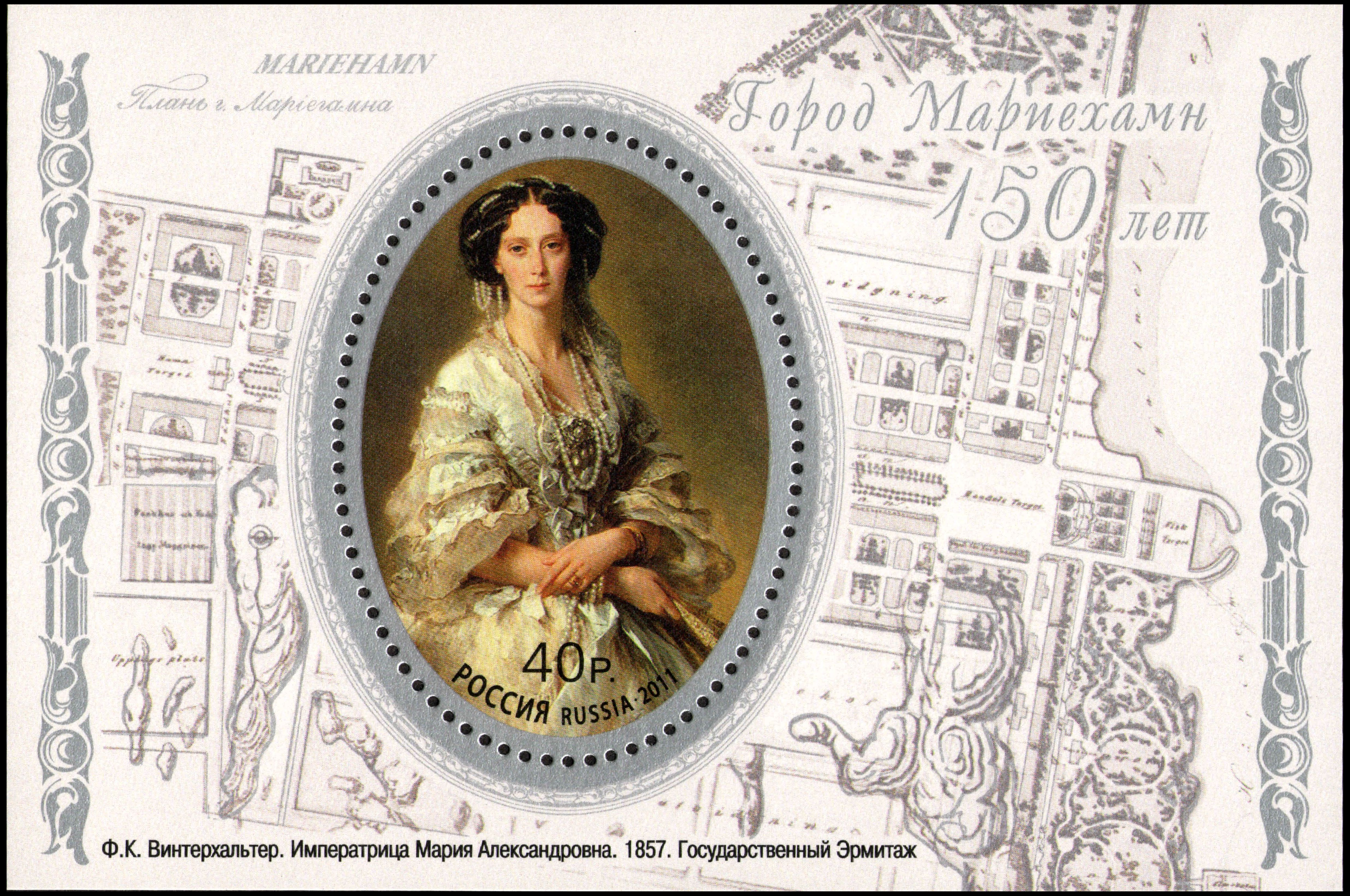 150th anniversary of the foundation of Mariehamn: the joint issue of Russia and Åland Islands. The souvenir sheet of Russia, 21th February 2011, 40 Rubles, Catalogue of PTC Marka # 1463; Michel № 1695 (Block143). The souvenir sheet depicts the portrait of Russian empress Maria Alexandrovna (the town was named after her) by F. X. Winterhalter against the background of the ancient map of Marienhamn.